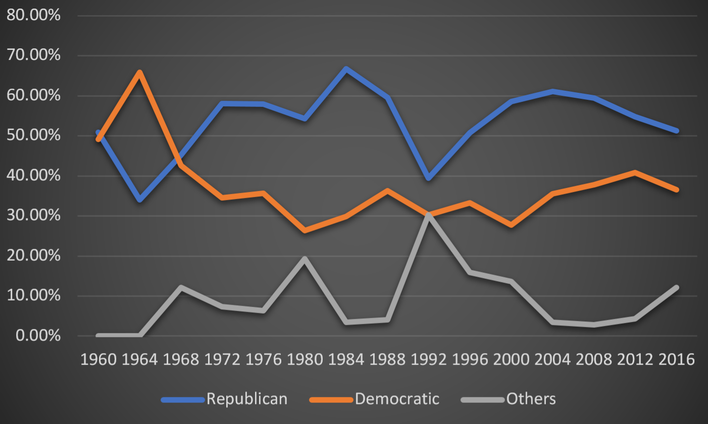 A line graph showing the presidential vote by party from 1960 to 2016 in Alaska.